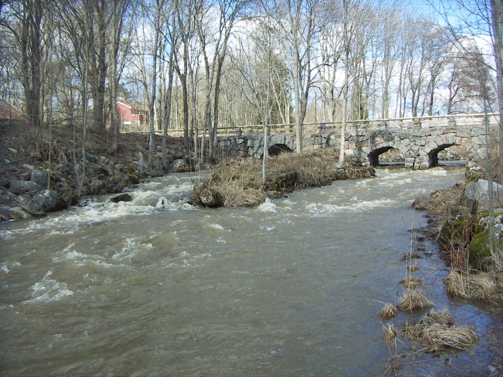 Spawning ground for the fish asp i Funboån, Uppsala county, Sweden.